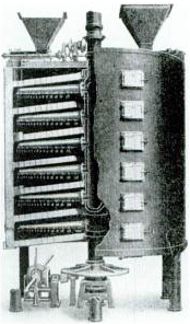 Herreshoff multiple-hearth furnace (chalcopyrite roaster) for copper smelting. The Herreshoff furnace is similar to the Evans-Klepetko furnace, but the shaft and arms are cooled by air instead of water.